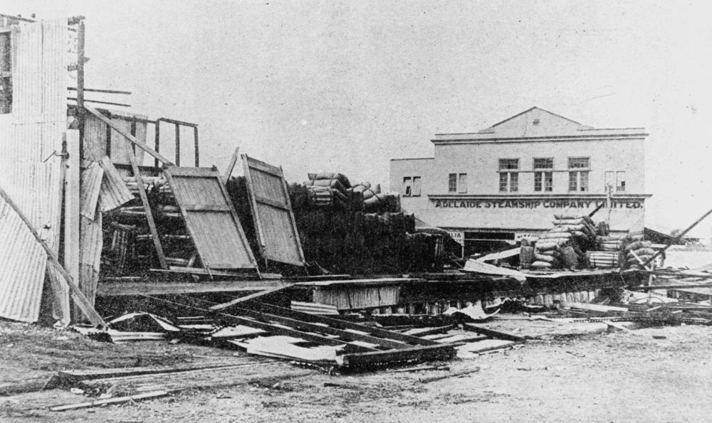 Destruction of the Burns, Philp and Company's Bulk Store in Townsville, Queensland caused by Cyclone 'Leonta', 1903. Cyclone 'Leonta' struck Townsville on March 9th, 1903. The Adelaide Steamship Company Limited building on the right appears untouched. Caption: The wreck of Burns, Philp, and Company's bulk store.